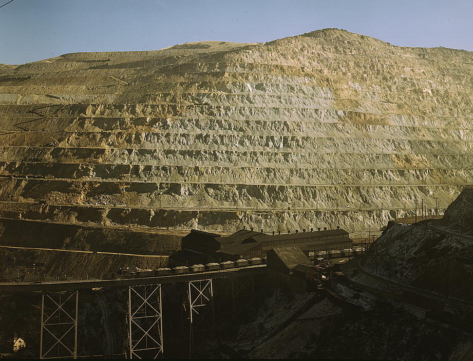 Open-pit workings of the Utah Copper Company, Bingham Canyon, Utah. This is the Carr Fork side from which the company obtains huge amounts of ore. The Carr Fork bridge and main shops appear in the foreground